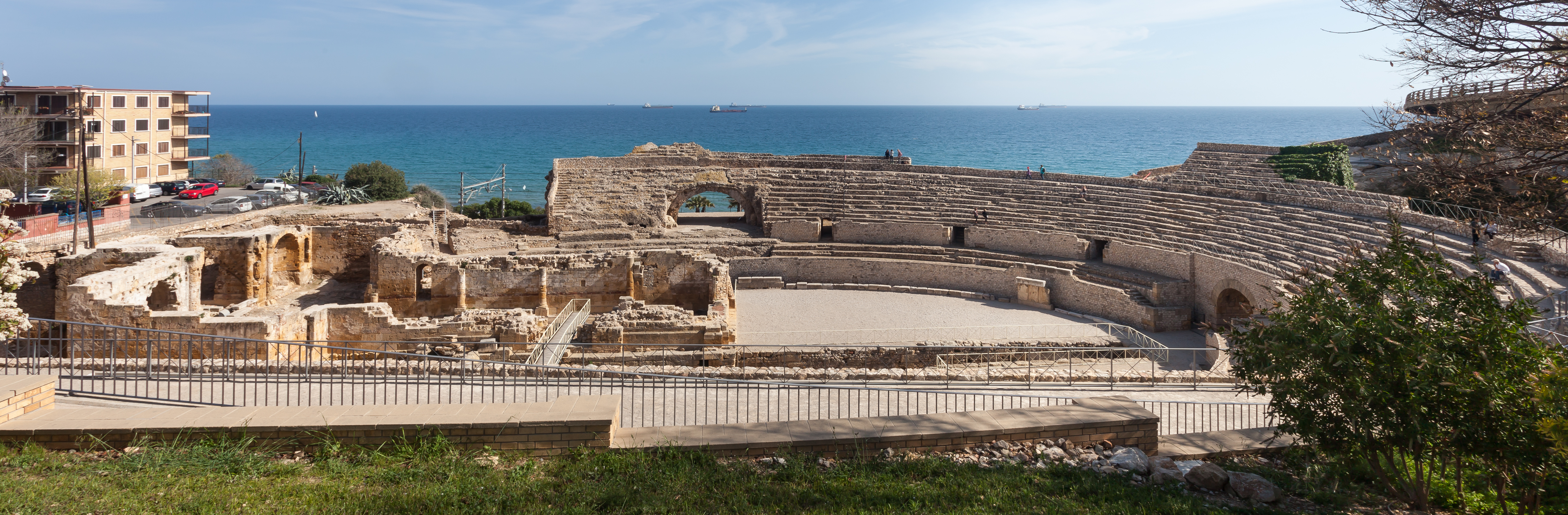 Amphitheater. Tarragona, CataloniaGalego: Anfiteatro romano de Tarragona.